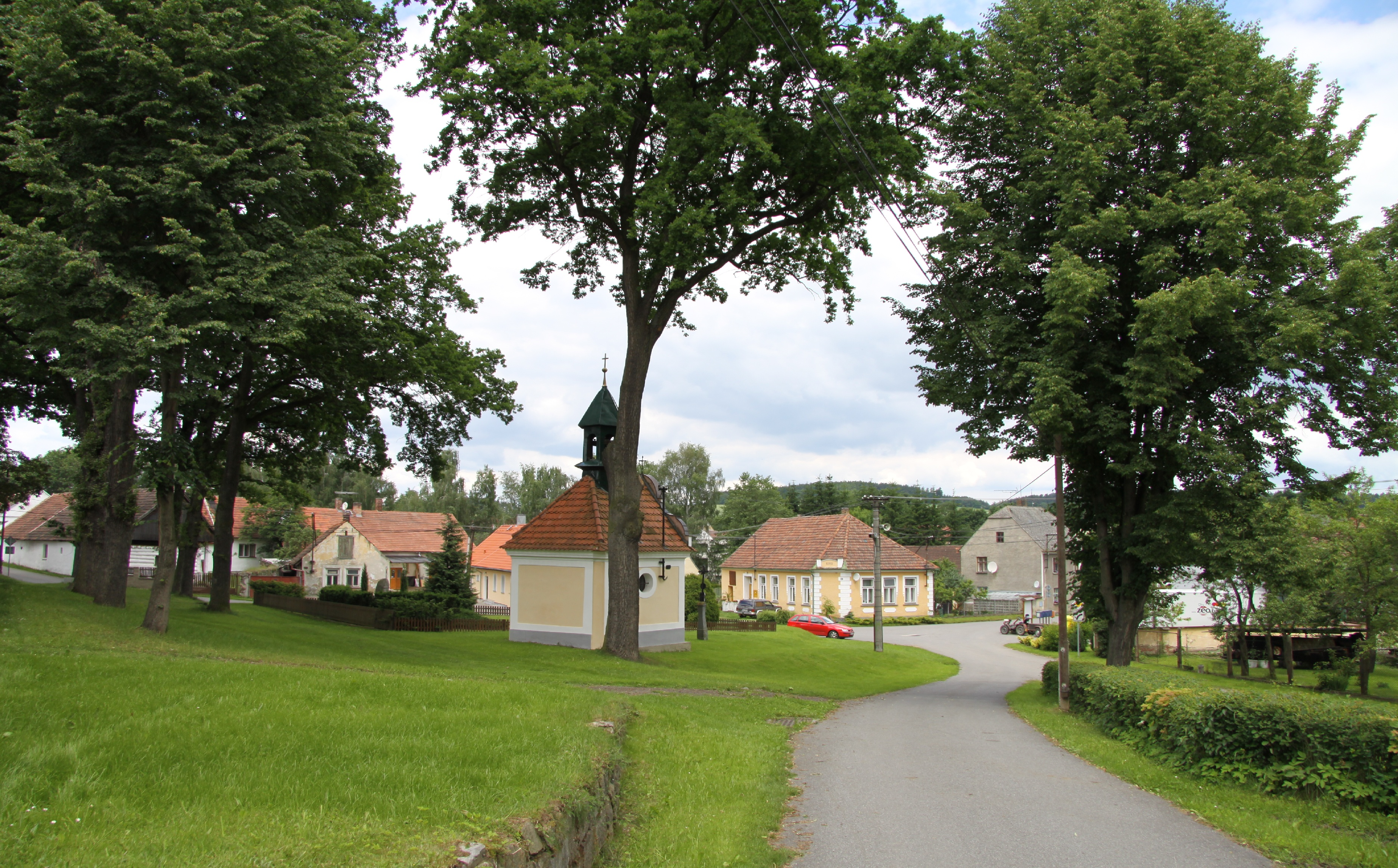 Štěchovice village in Strakonice District, Czech Republic. This photograph was taken within the scope of the 'Czech Municipalities Photographs' grant.